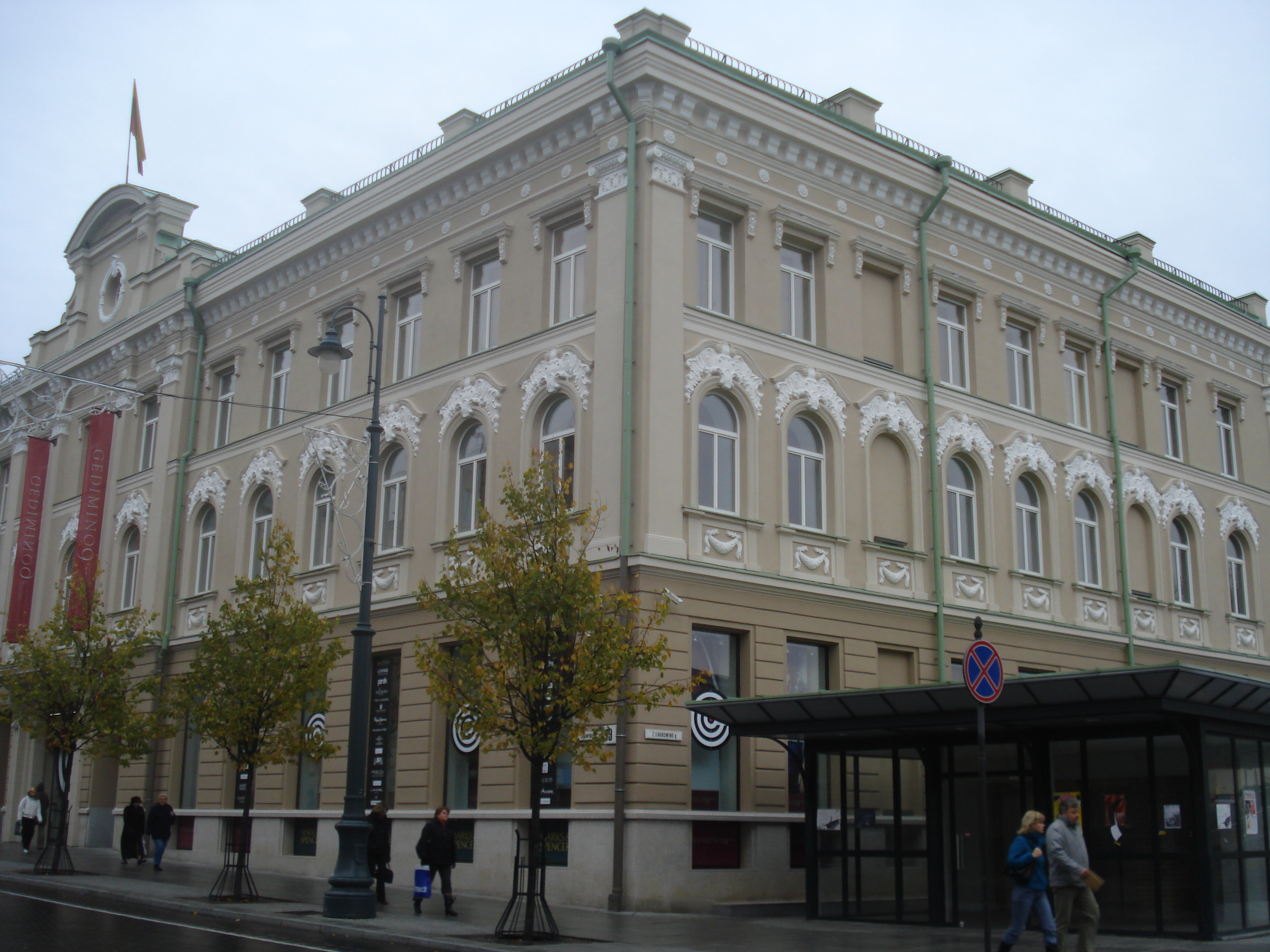 Former municipality building in Vilnius, built by Aleksej Polozov (1820—1903) in 1893; reconstruction by Antanas Spelskis (1918–1987) in 1948 as Central Commitee of the Lithuanian Communist Party, now shopping centre "Gedimino 9"